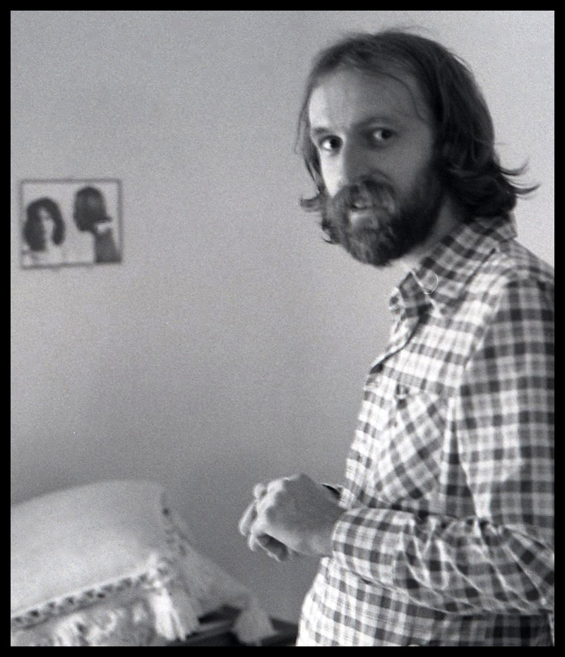 1977 portrait of Ernest Thoen